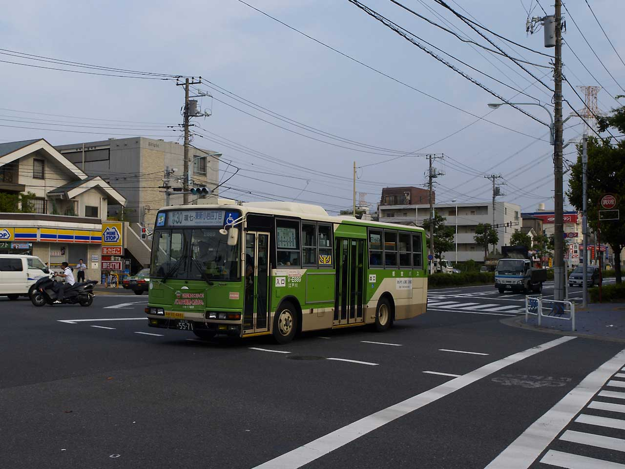 Toei Bus "ShinKo 30" Route, throough Kasai Chuo Dori Avenue. Model: Mitsubishi Fuso Aero Midi KC-MK219J License plate: TKA22 KA5571 Place: Naka-Kasai, Edogawa Ward, Tokyo Japan